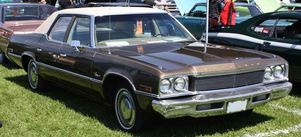 1974 Plymouth Fury sedan C-body